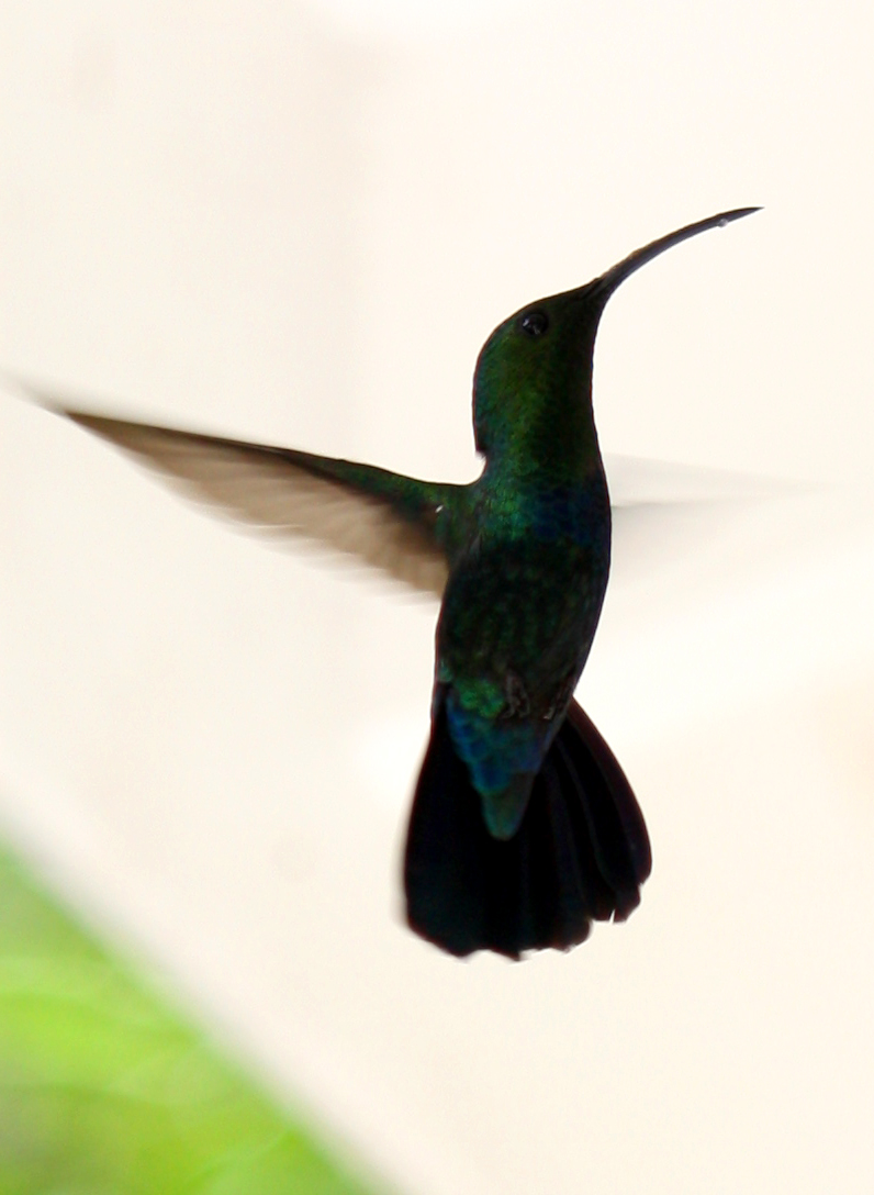 Green-throated Carib hummingbird (Eulampis holosericeus) in Coulibistrie, Dominica.